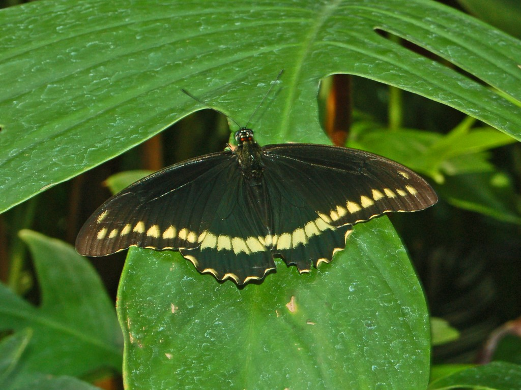 Battus polydamas - Niagara Falls Conservatory